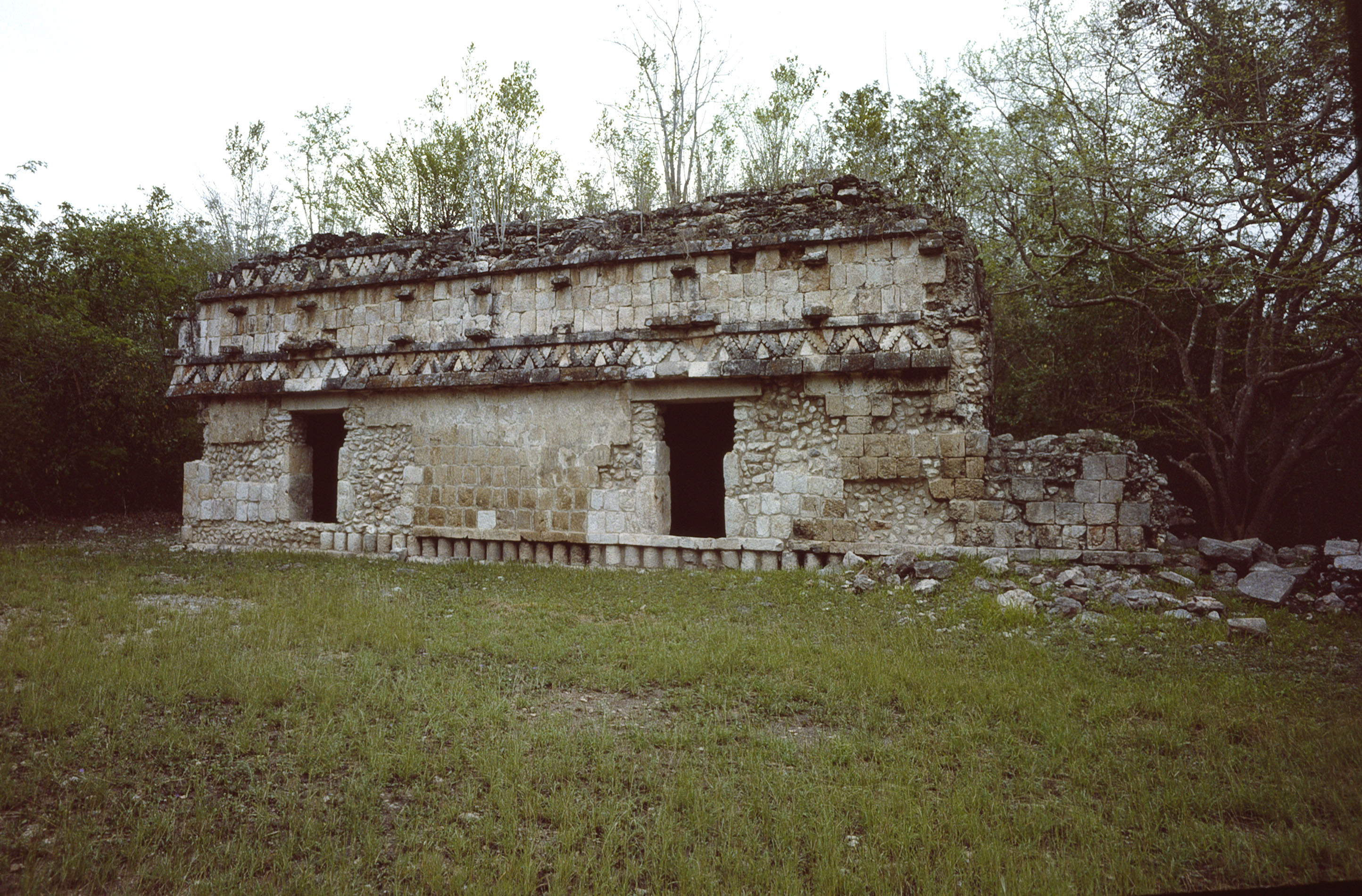 Ichpich, Campeche, Mexico: building III